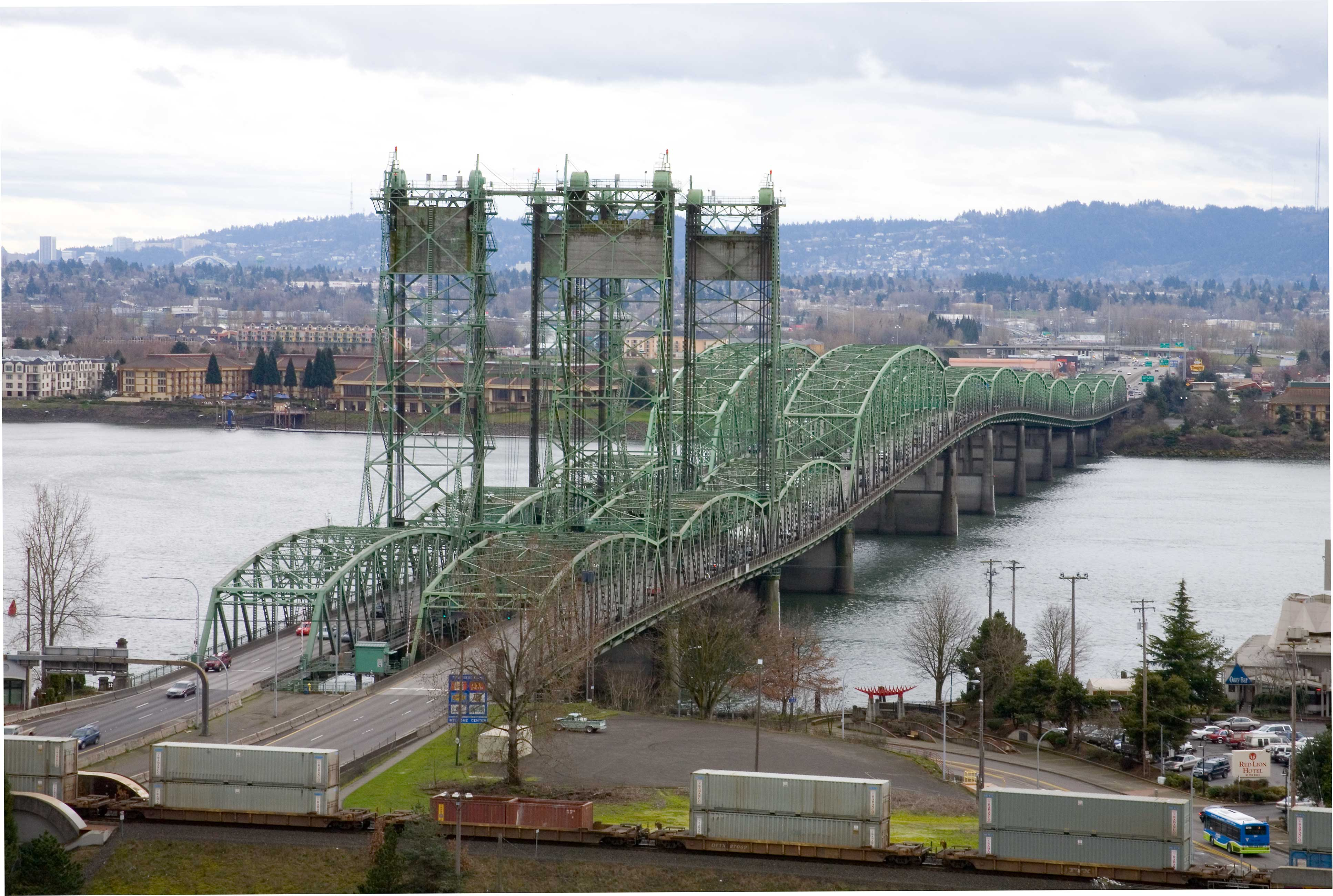 The Interstate Bridge seen from Vancouver, Washington, looking south toward Hayden Island in north Portland, Oregon, where Interstate 5 crosses the Columbia River. The railroad in the foreground parallels Washington State Route 14 east through the Columbia River gorge, and a C-Tran bus can be seen headed toward the corner where southbound Columbia Street becomes eastbound Columbia Way.